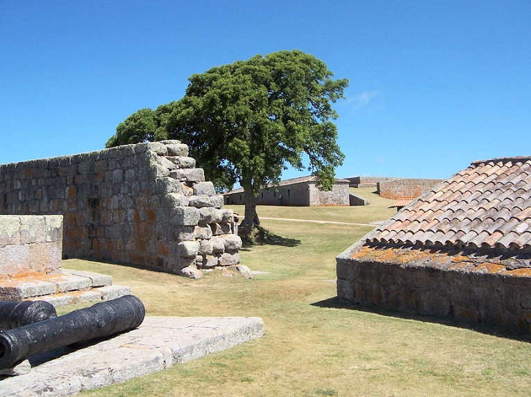 Fortaleza Santa Tereza, Rocha Department, Uruguay.